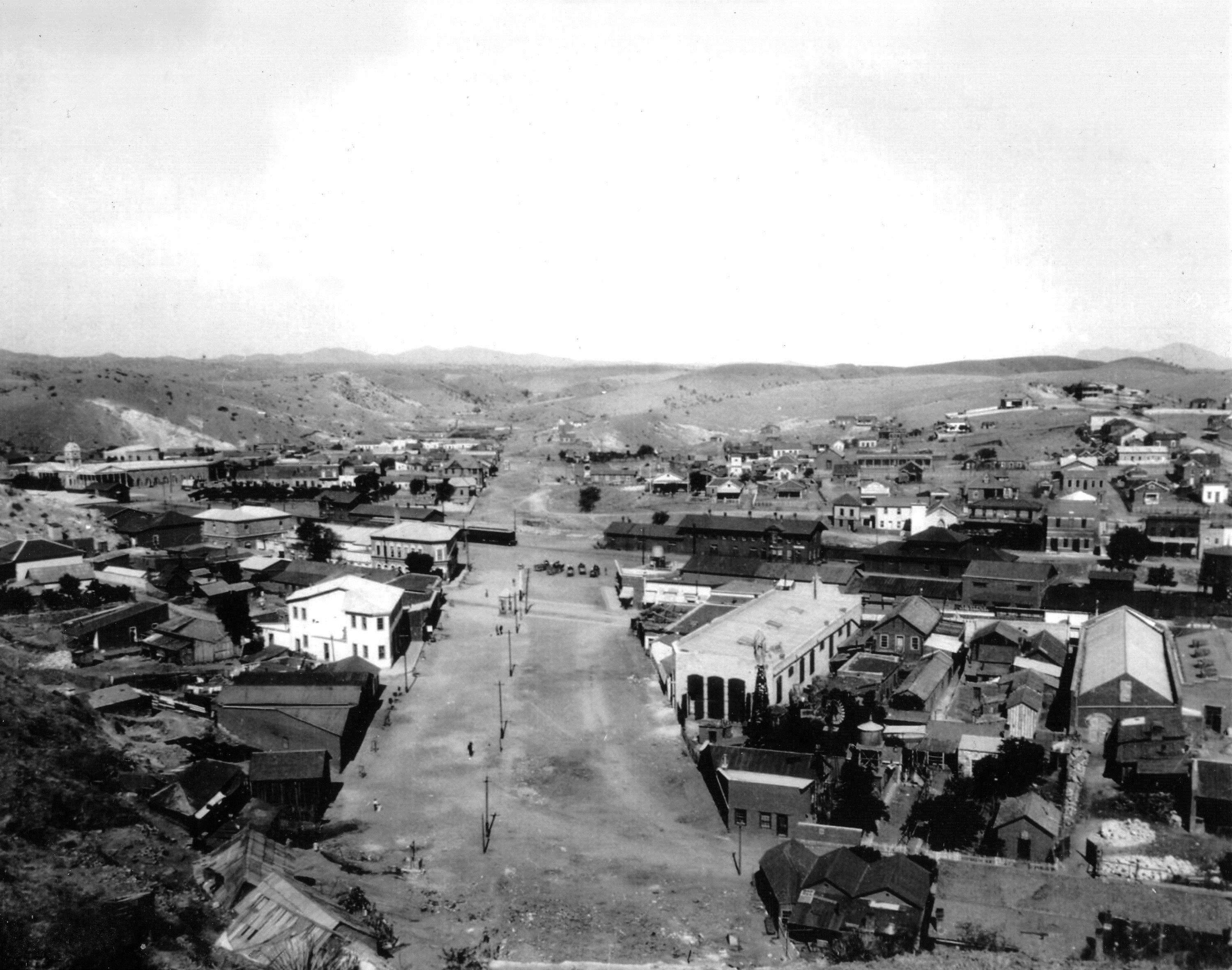 The Nogales international boundary looking west. Photo was taken in 1899 and pre-dates construction of the fence and ports of entry.